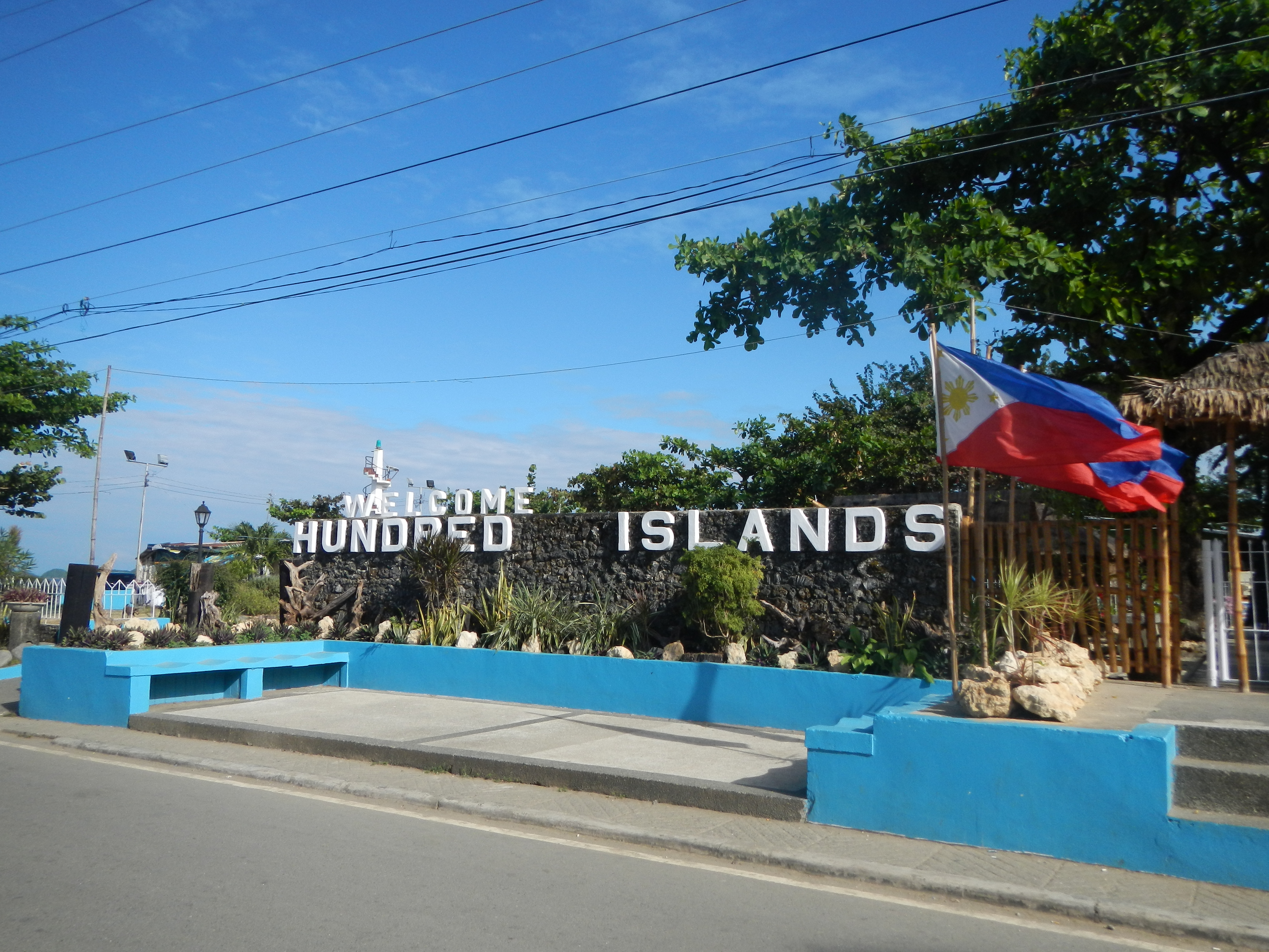 Hundred Islands National Park[1]